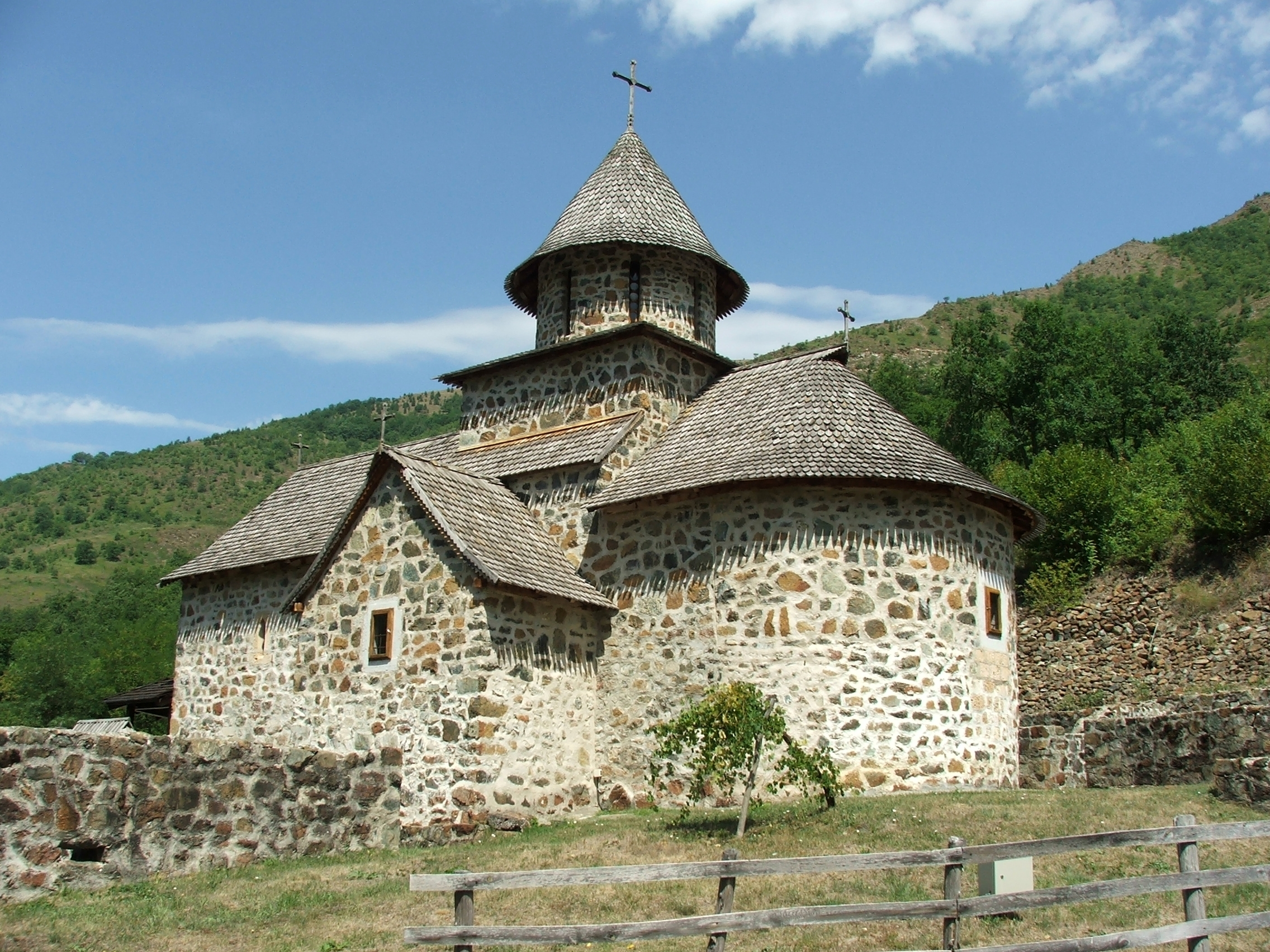 Uvac MonasteryСрпски (ћирилица): Манастир Увац